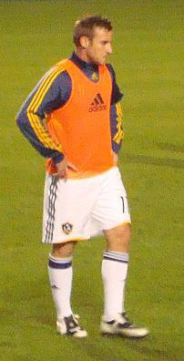 Chris Birchall in prematch training